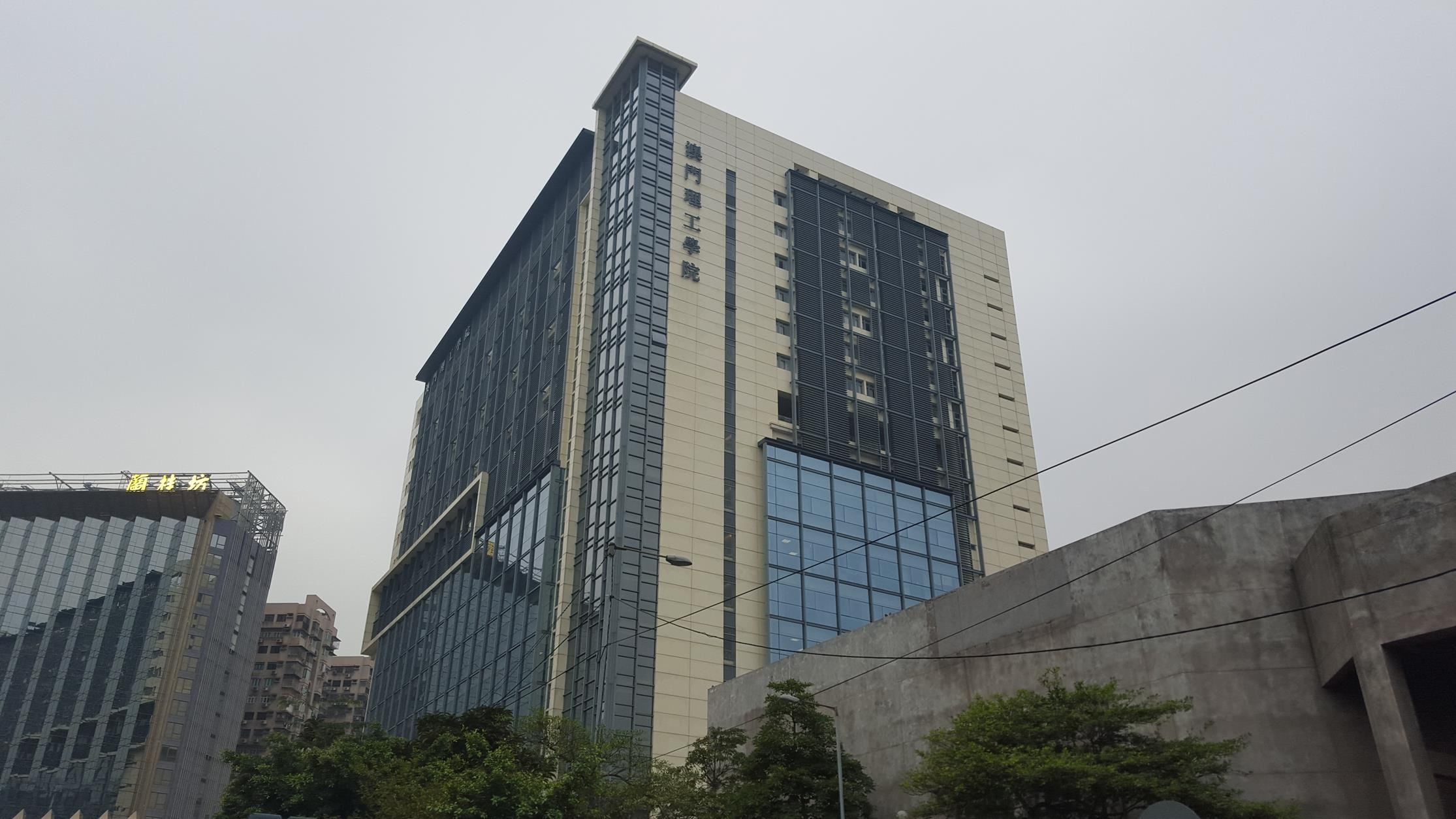 Macao Polytechnic Institute